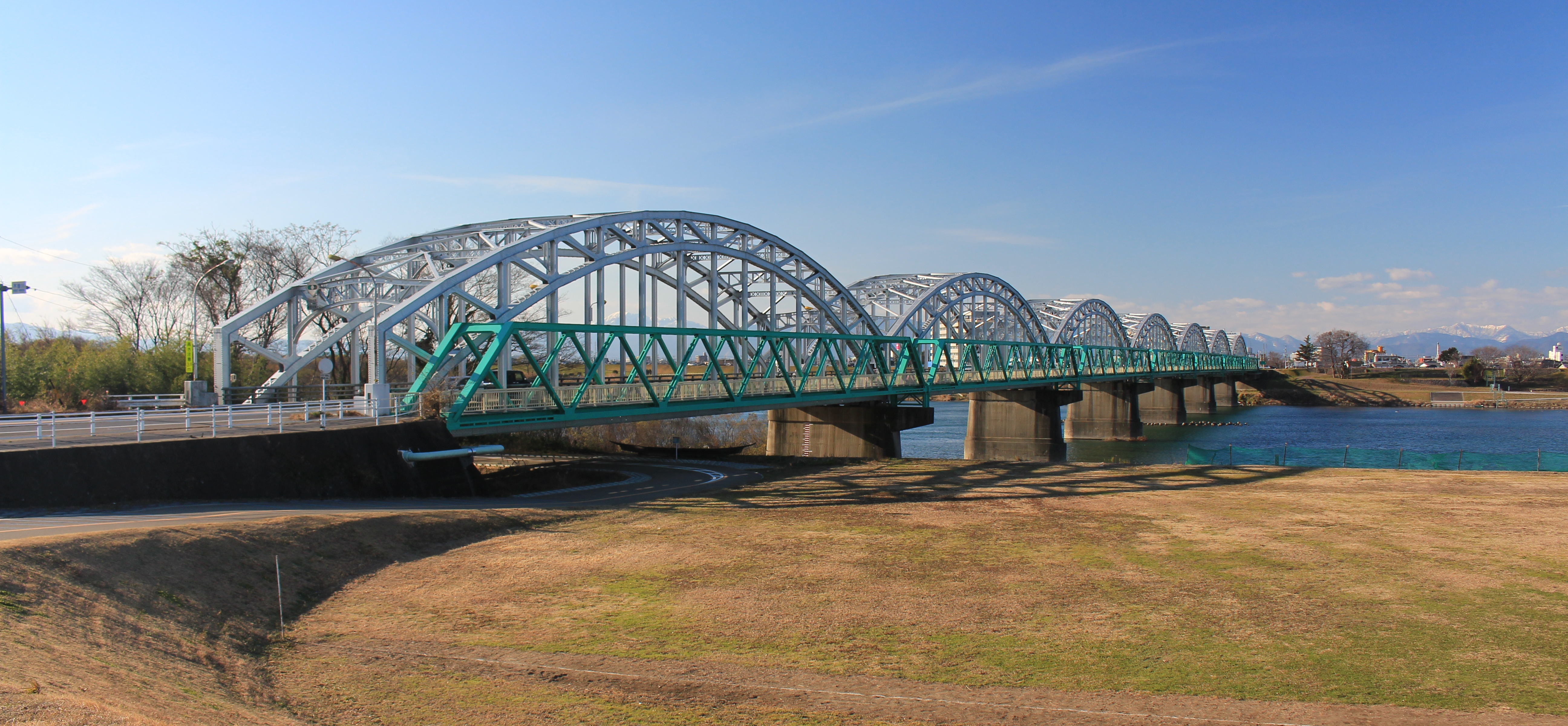 Kisogawa Bridge of Aichi Prefectural Road and Gifu Prefectural Road Route 14 over Kiso River in Japan.